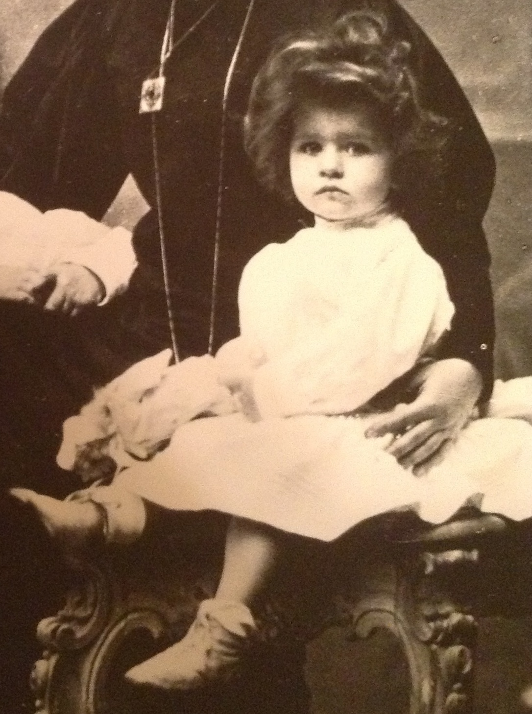 Alma Schindler Mahler photographed circa 1905-1906 with daughter Maria at left (who died in 1907) and future sculptor Anna at right